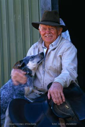 Mr. R.M.Williams with his pet Blue Heeler dog, 1988